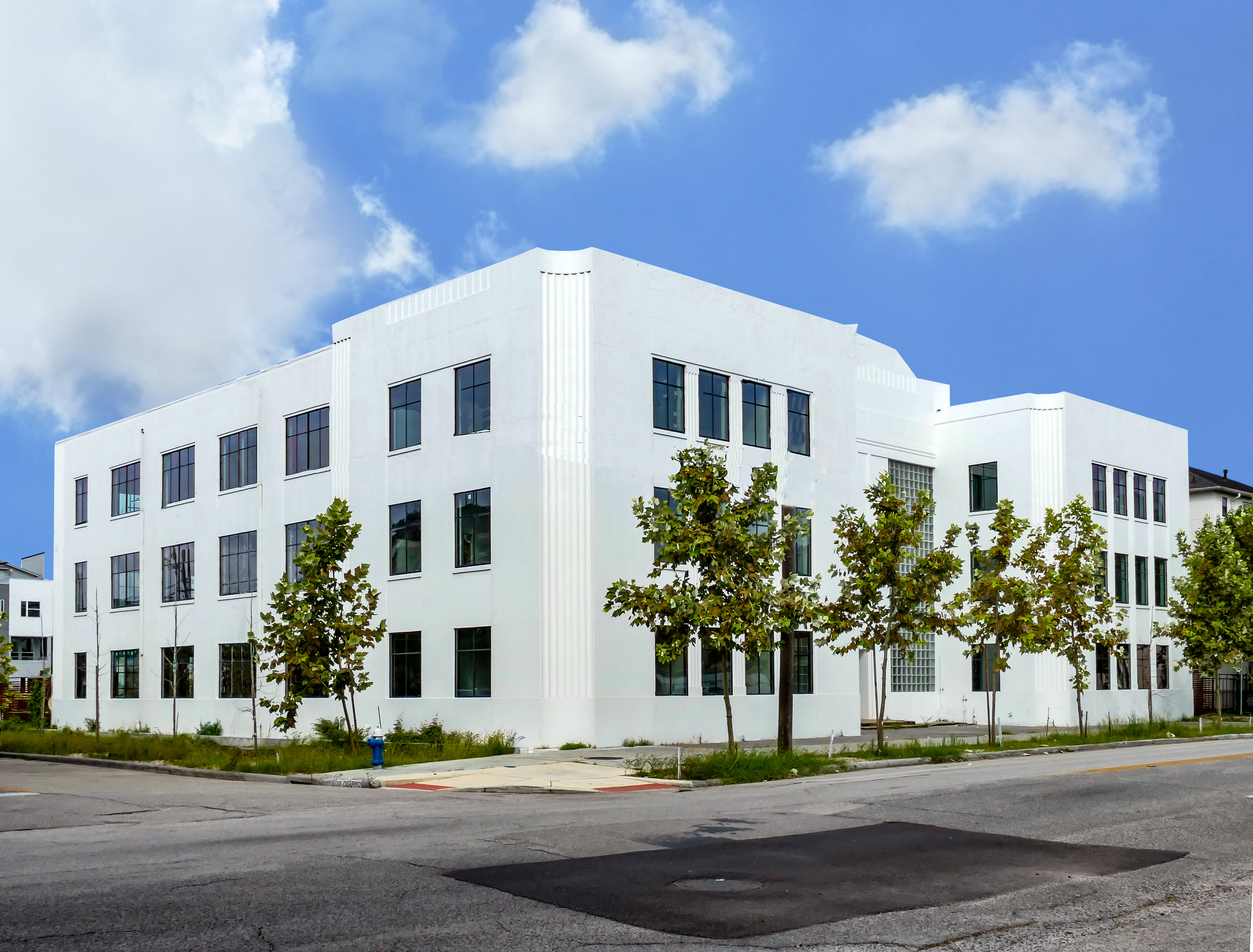 The building was occupied in 1938. Schlumberger was founded in 1926 by two brothers Conrad and Marcel Schlumberger from the Alsace region in France as the Electric Prospecting Company (French: Société de prospection électrique). The company recorded the first-ever electrical resistivity well log in Merkwiller-Pechelbronn, France in 1927.